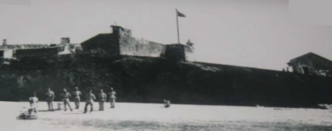 Photograph showing Portuguese soldiers on the beach in front of Fort St. Anthony of Simbor (Forte de Santo António de Simbor), also called Forte Pani Kota, located on an islet in the bay of Simbor 25 km east of Diu. Undated but somewhere between 1930 and 1950.